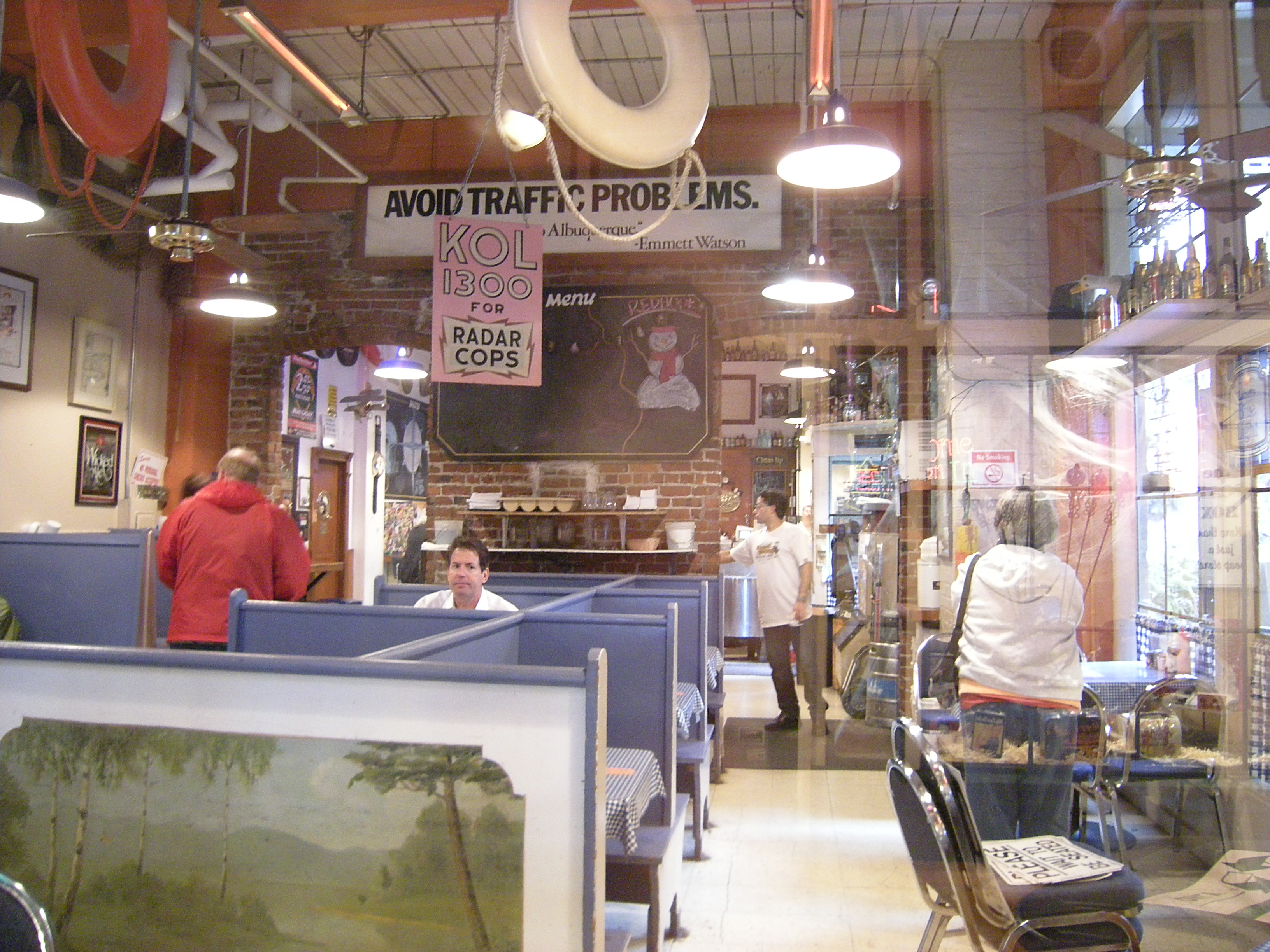 Emmett Watson's Oyster Bar, Soames-Dunn Building, Pike Place Market, Seattle, Washington.